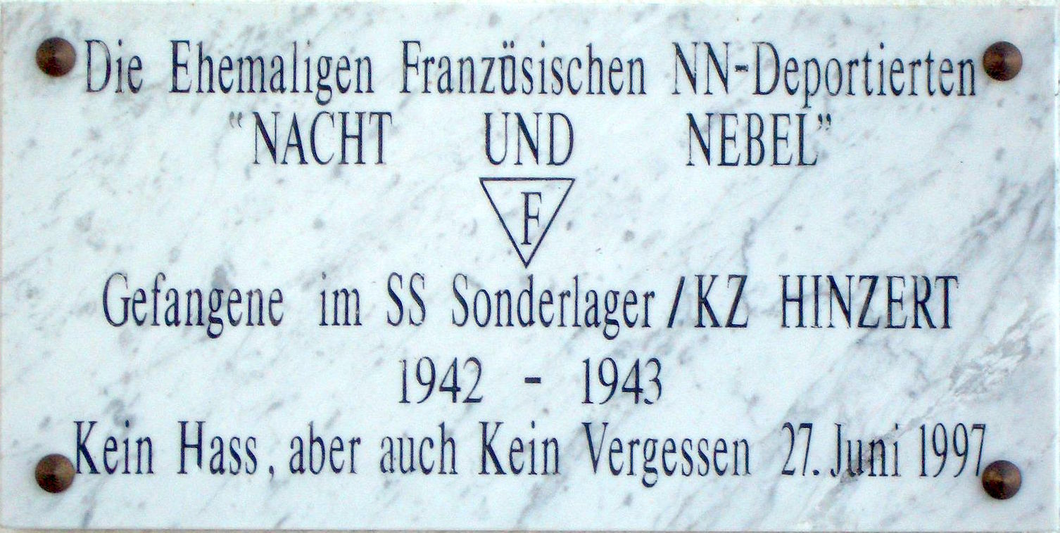 SS-Sonderlager/KZ Hinzert, commemorative plaque of the French victims